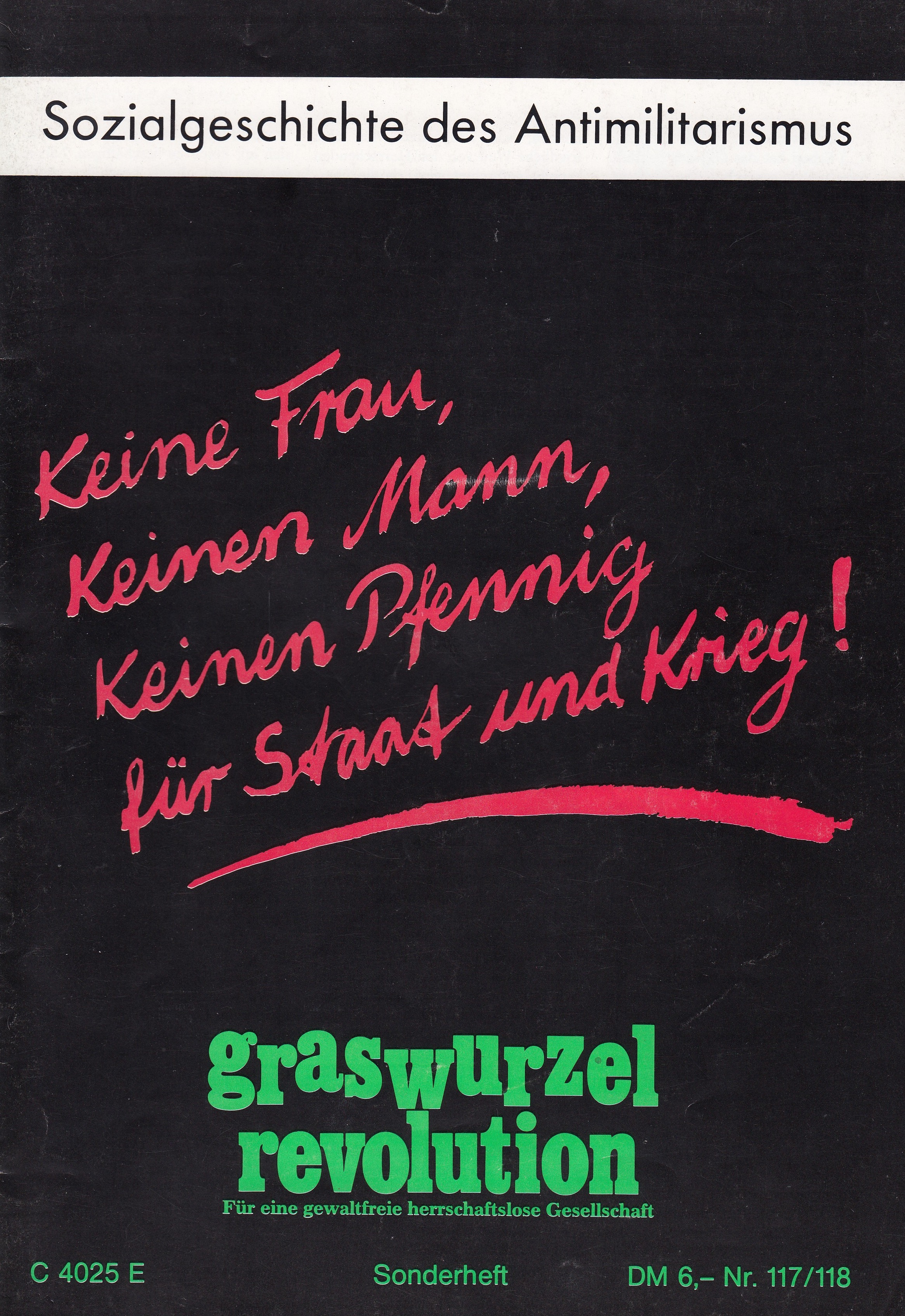 anarcho pacifist newspaper - Germany 1987